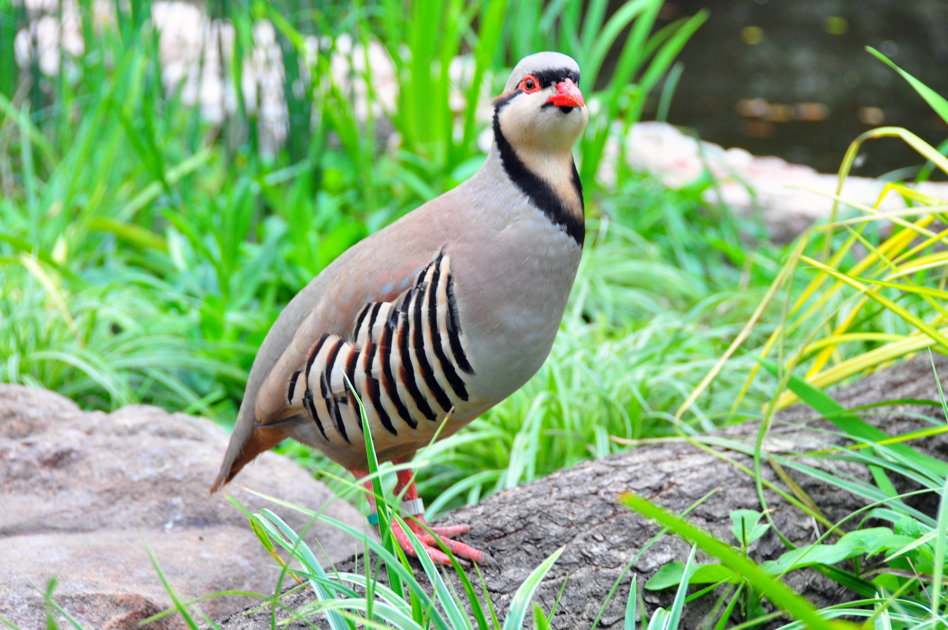 Chukar Partridge (Alectoris chukar) at Weltvogelpark Walsrode (Walsrode Bird Park, Germany)